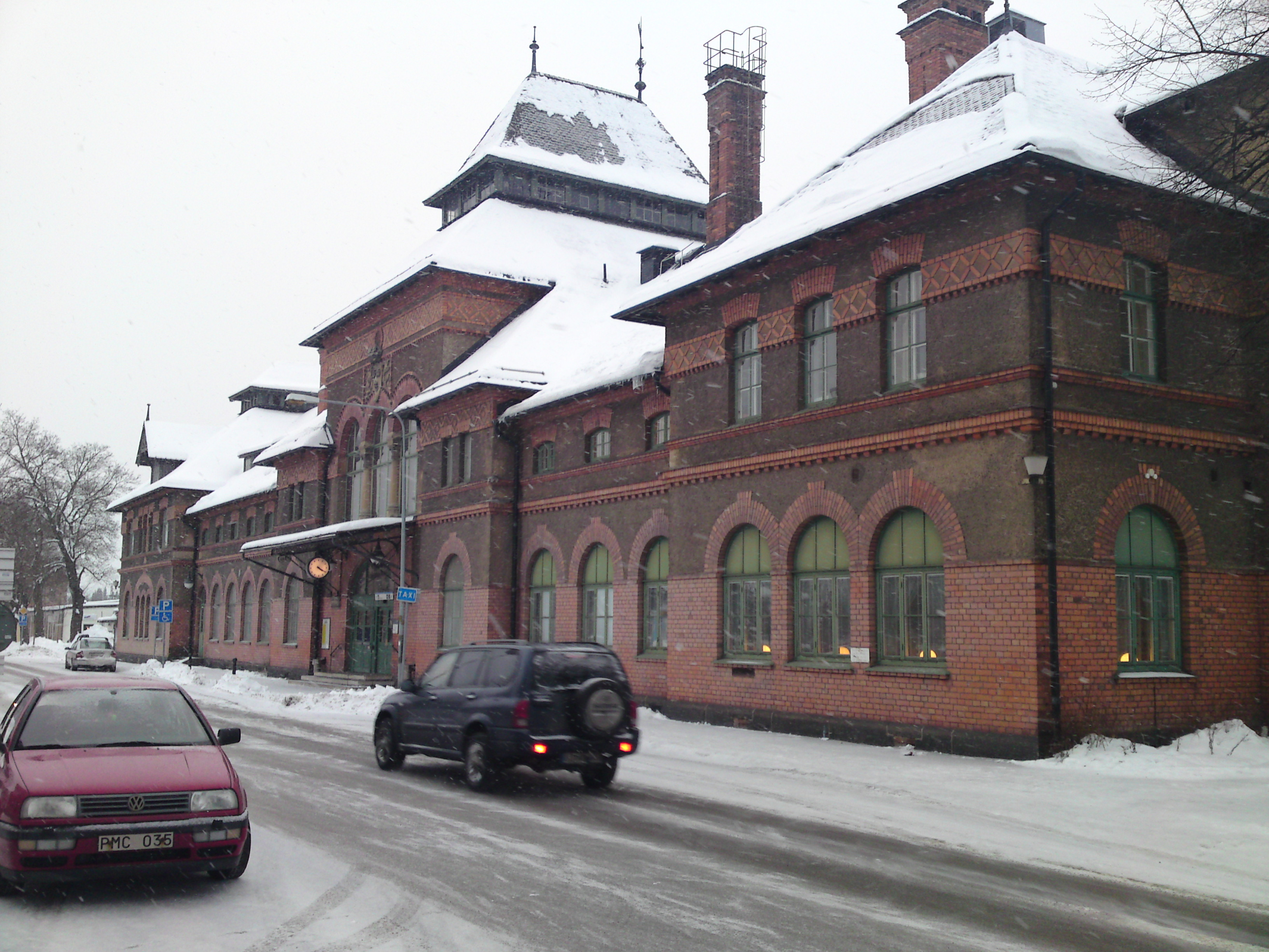 Avesta Krylbo railway station seen from the station forecourt in Krylbo.